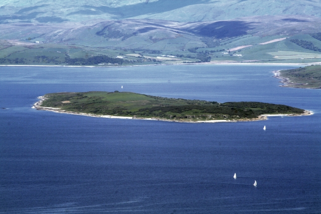 Inchmarnock A small island off the Isle of Bute seen from Arran. St Ninian's Bay on Bute can be seen beyond.